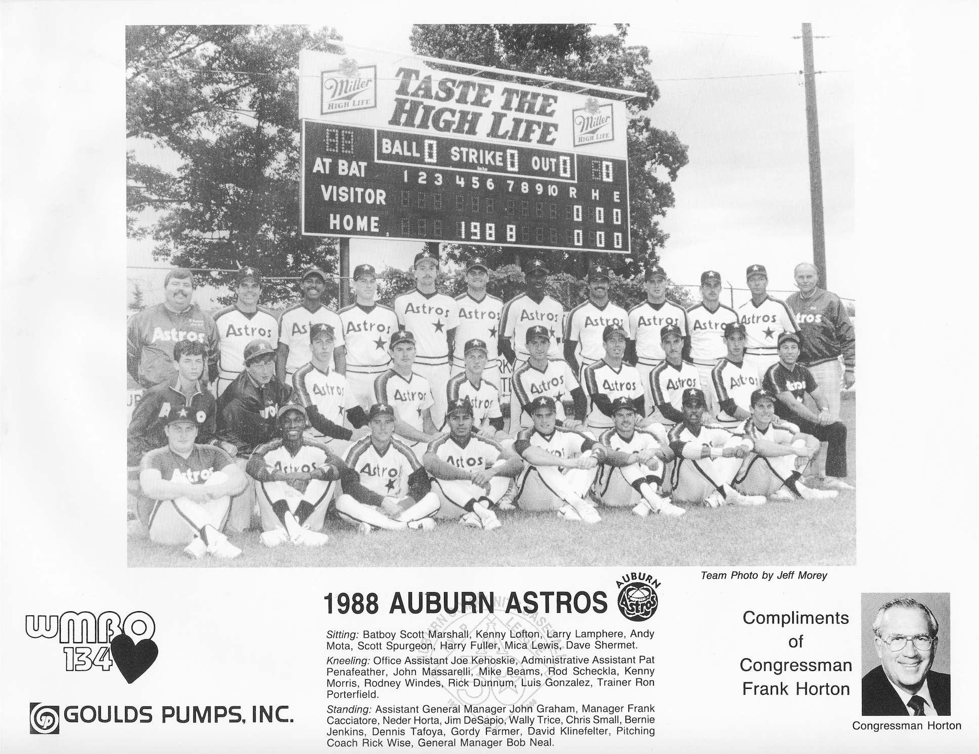 Team photo for the 1988 Auburn Astros baseball team of the New York–Penn League, taken at Falcon Park in Auburn, New York. Sitting: Batboy Scott Marshall, Kenny Lofton, Larry Lamphere, Andy Mota, Scott Spurgeon, Harry Fuller, Mica Lewis, Dave Shermet. Kneeling: Office Assistant Joe Kehoskie, Administrative Assistant Pat Penafeather, John Massarelli, Mike Beams, Rod Scheckla, Kenny Morris, Rodney Windes, Rick Dunnum, Luis Gonzalez, Trainer Ron Porterfield. Standing: Assistant General Manager John Graham, Manager Frank Cacciatore, Neder Horta, Jim DeSapio, Wally Trice, Chris Small, Bernie Jenkins, Dennis Tafoya, Gordy Farmer, David Klinefelter, Pitching Coach Rick Wise, General Manager Bob Neal. (Also pictured: Congressman Frank Horton.)